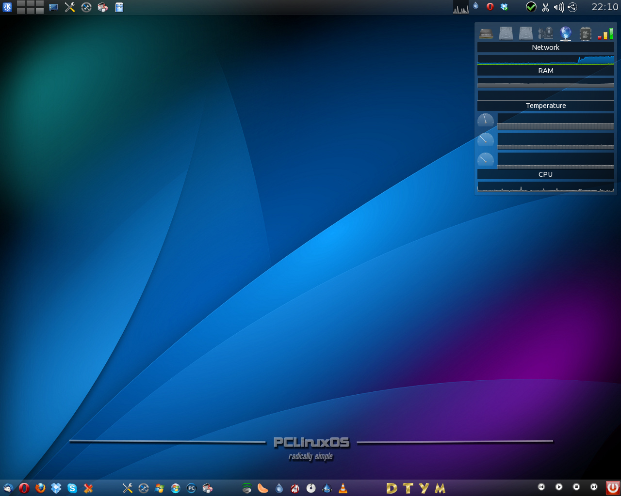 Screenshot of the PCLinuxOS KDE edition